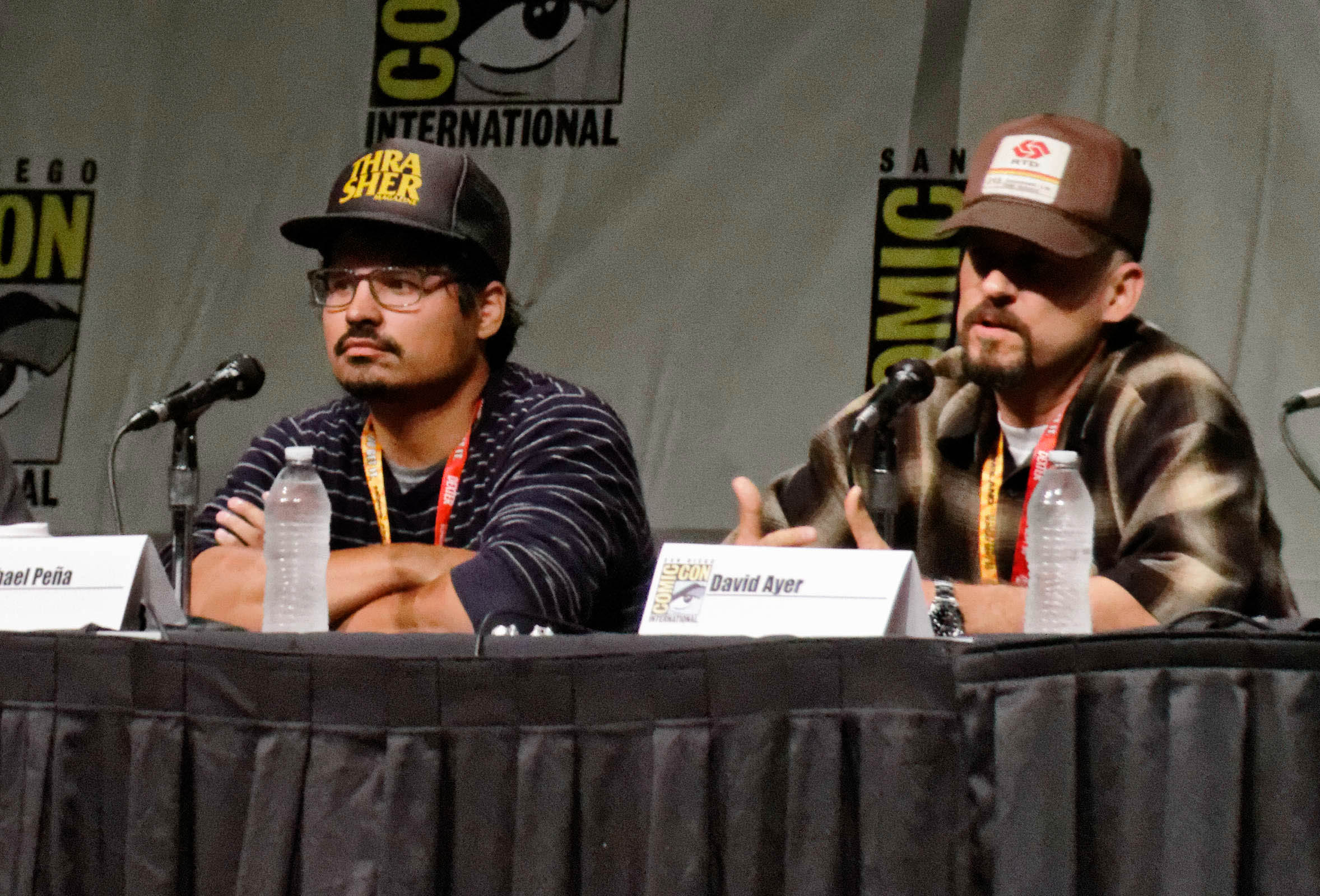 From left: Steven Weintraub (Collider editor-in-chief), Michael Peña, and David Ayer at the Open Roads Film Panel, 2012 Comic-Con